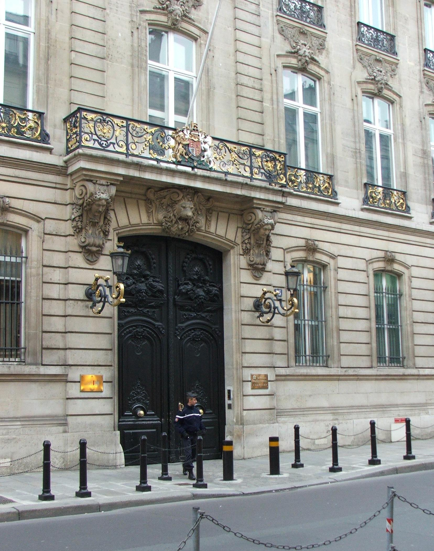 Embassy of United Kingdom- chancery in Paris - France.